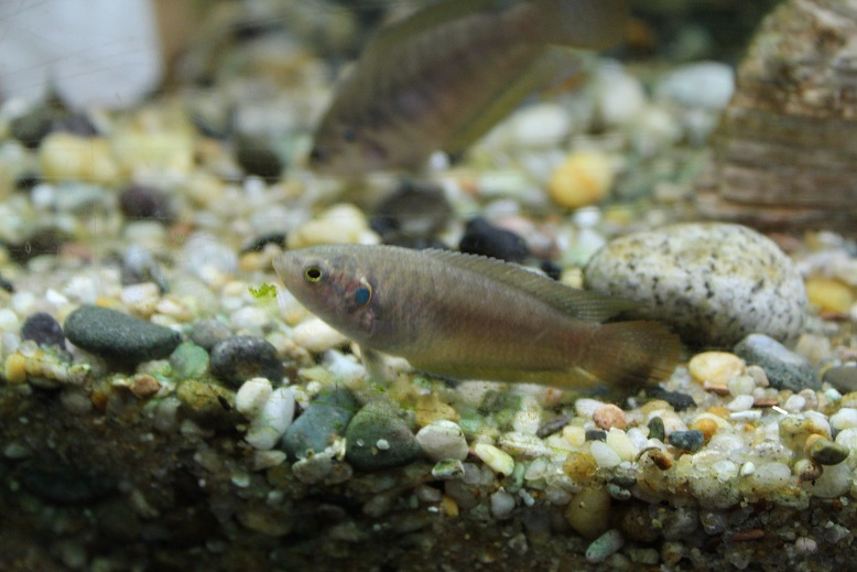 버들붕어 성어